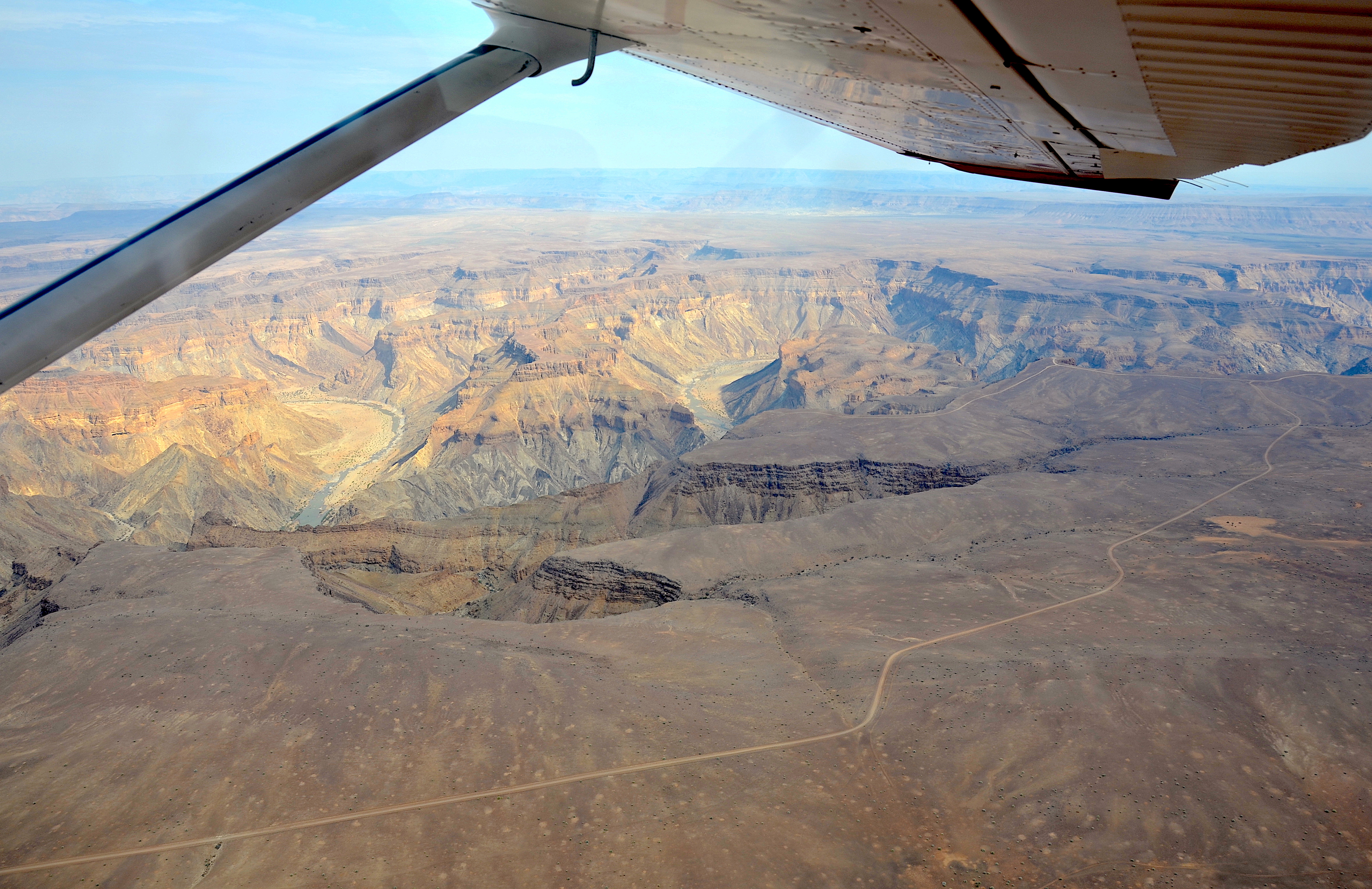 Gravel road along Fish River Canyon in Namibia (2017)